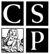 Logo for the California Society of Printmakers. The image at top left corner is a Belmaye or headless man, with eyes in place of a heart, originally published in "Liber Chronicarum" (1493).